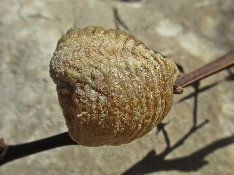 Sphodromantis viridis (Mantidae) - (ootheca), Río Guadaiza, Spain